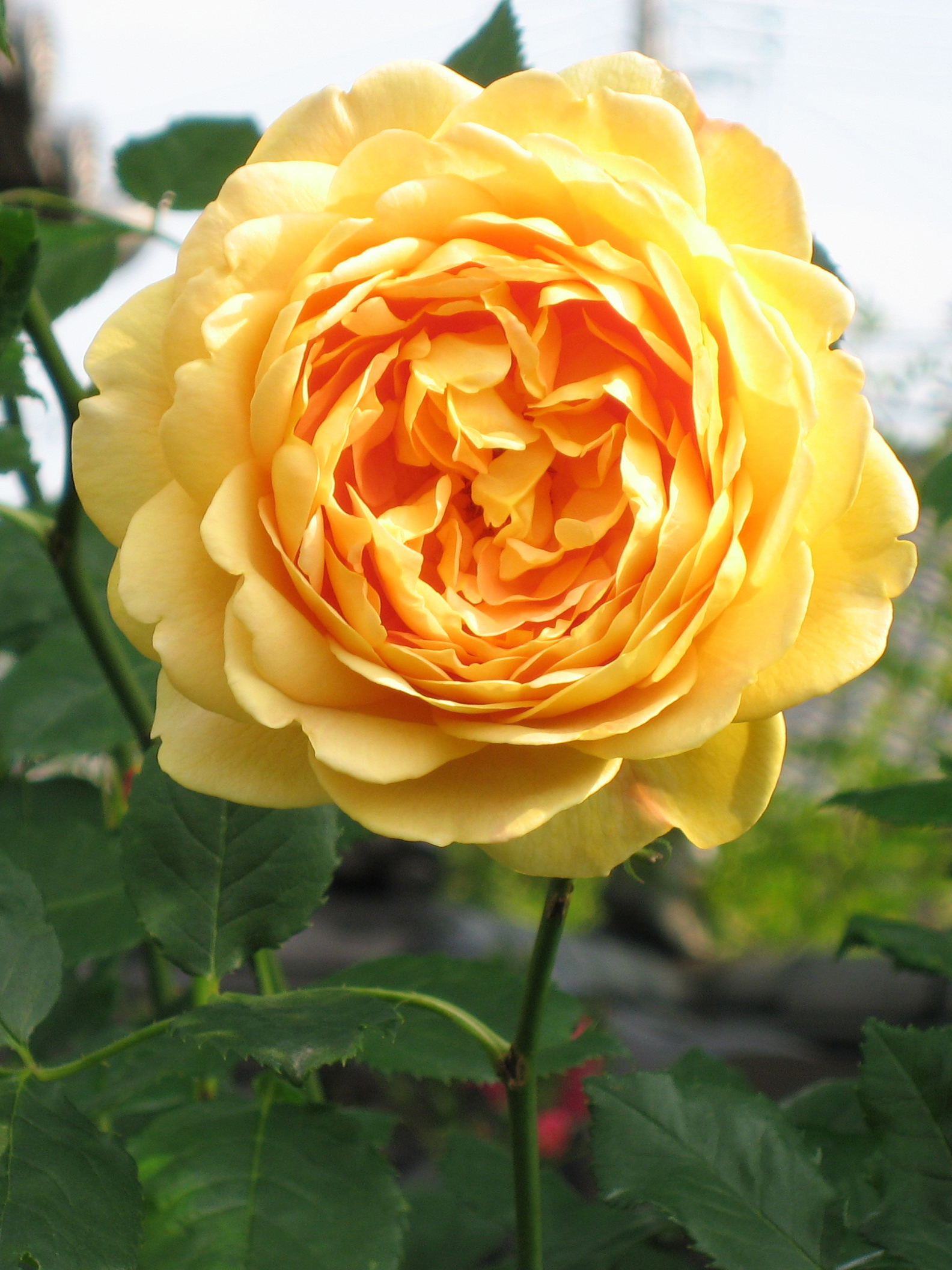 Rosa cv 'Golden Celebration', ER, David Austin (1992), at the English Rose garden of Ofusa-Kannon (temple) Ousa Kashihara, Nara, Japan.